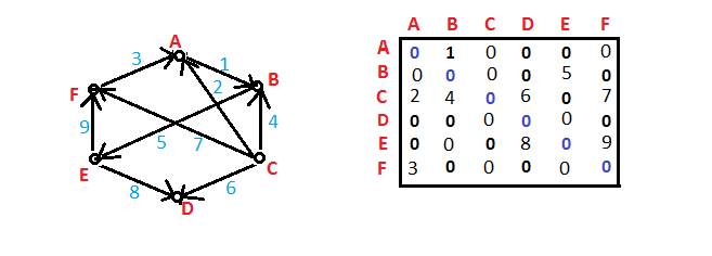 Ma trận trọng số có hướng